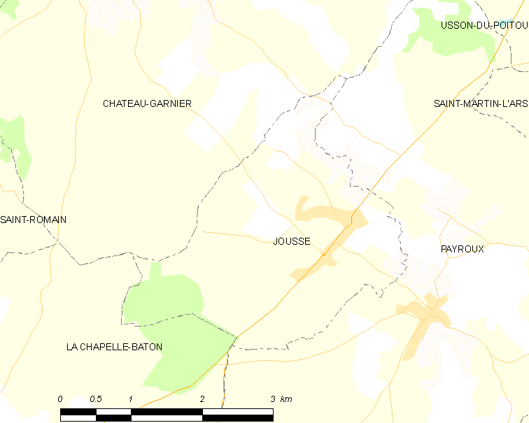 Map of French municipality Joussé